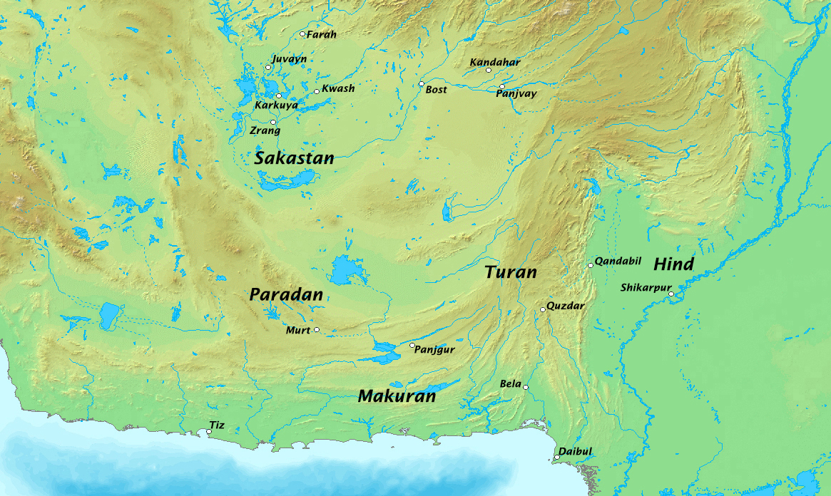 Map of the southeastern part of the early Sasanian Empire (not fully done yet). Mainly based on the Sasanian map in the Cambridge History of Iran, volume 3. Map taken from DEMIS Mapserver, which is public domain, the rest is self-made.